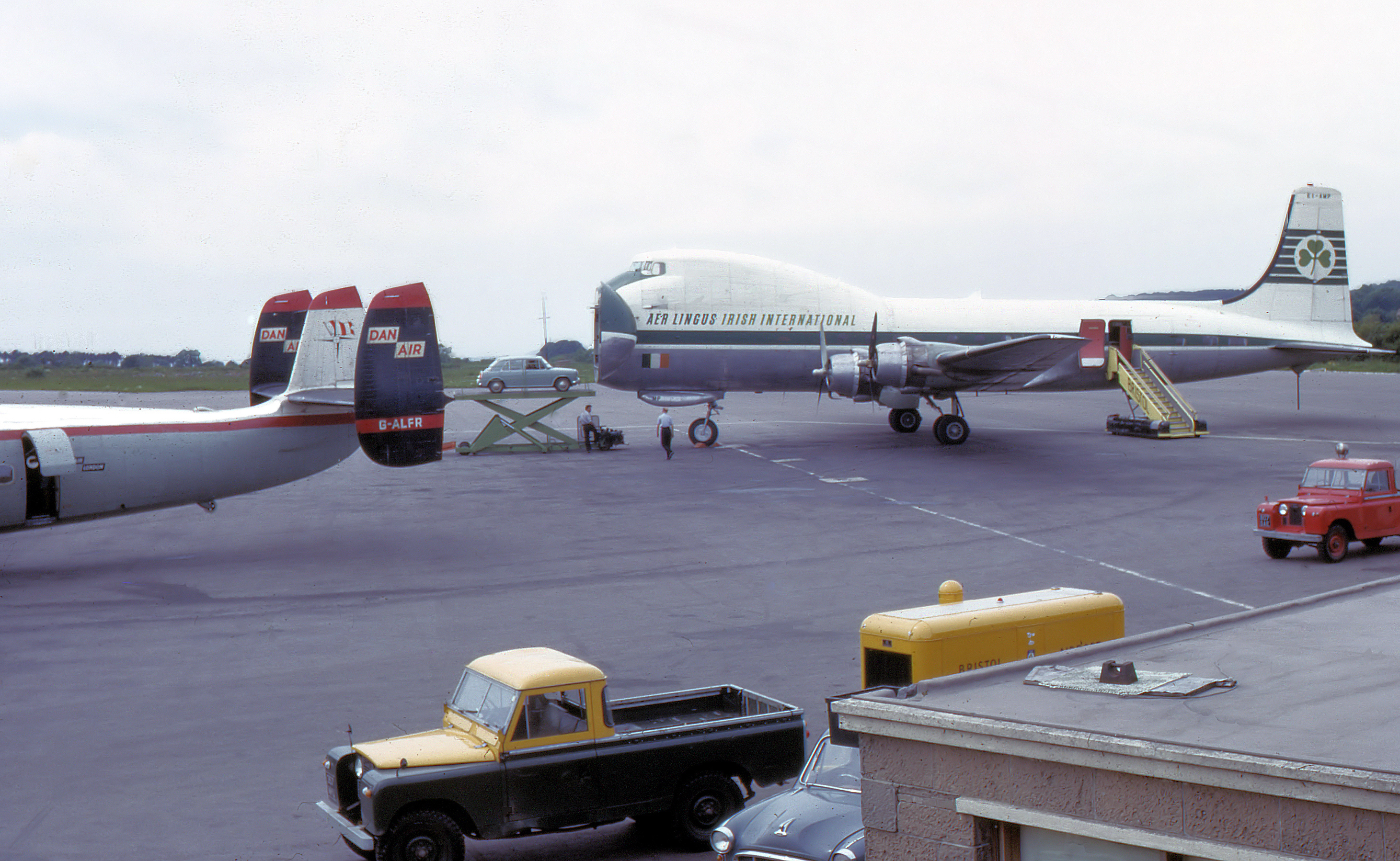 Aer Lingus Aviation Traders ATL-98 Carvair (EI-AMP) and Airspeed Ambassador (G-ALFR) at Bristol Airport, Bristol, England, in 1964. Sorry about the dirt specks (on the original colour slide), but it’s too much work to eliminate them all. Photographed by Adrian Pingstone and released to the public domain.